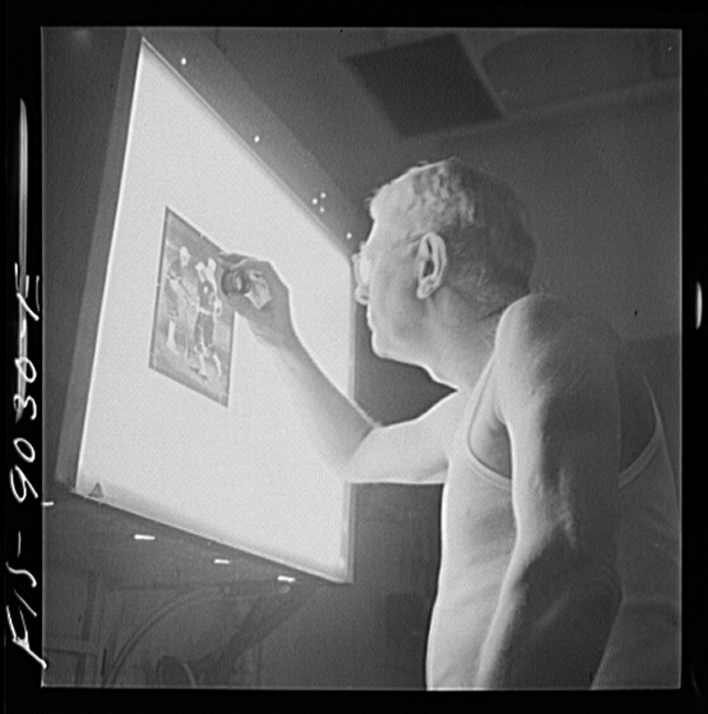 New York, New York. Photo engraving department of the New York Times newspaper. Examining the dots on the screen of a strip negative in the darkroom before it is transferred to a zinc plate